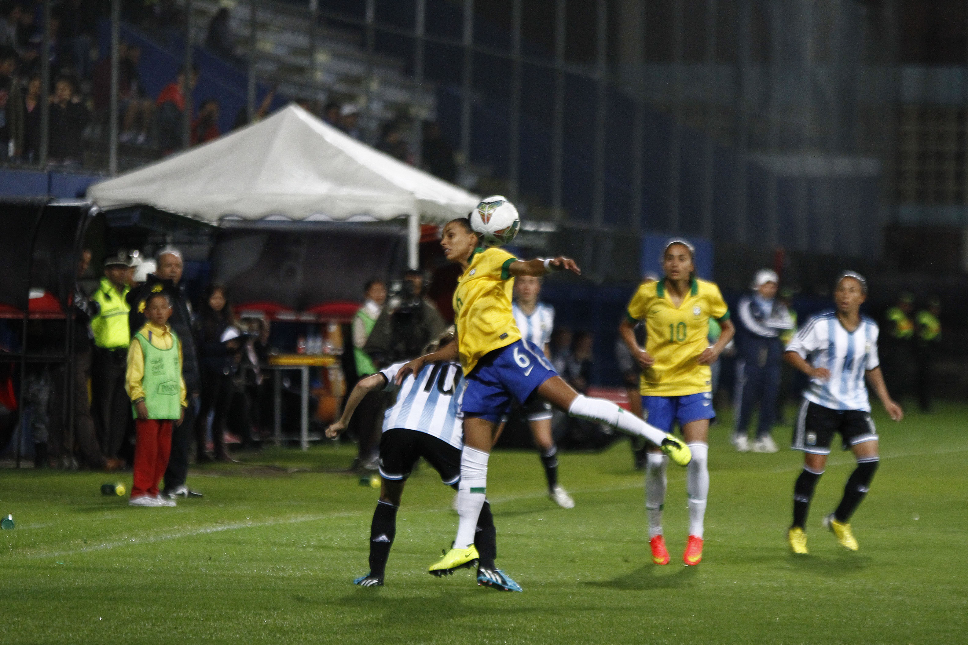 Sangolqui, 26 (Andes).- En el estadio de Sangolquí se enfrentaron las seleciones de Brasil y Argentina por la Copa Amérca Femenina Ecuador 2014, Foto: Micaela Ayala V./Andes This file comes from the Flickr stream of the Public News Agency of Ecuador and South America and is copyrighted. This file is verified as being licenced under an appropriate Creative Commons licence. In short: you are free to modify the file as long as you attribute Photographer name/Andes and distribute it under the same licence. This tag does not indicate the copyright status of the attached work. A normal copyright tag is still required. See Commons:Licensing for more information. English | español | +/−